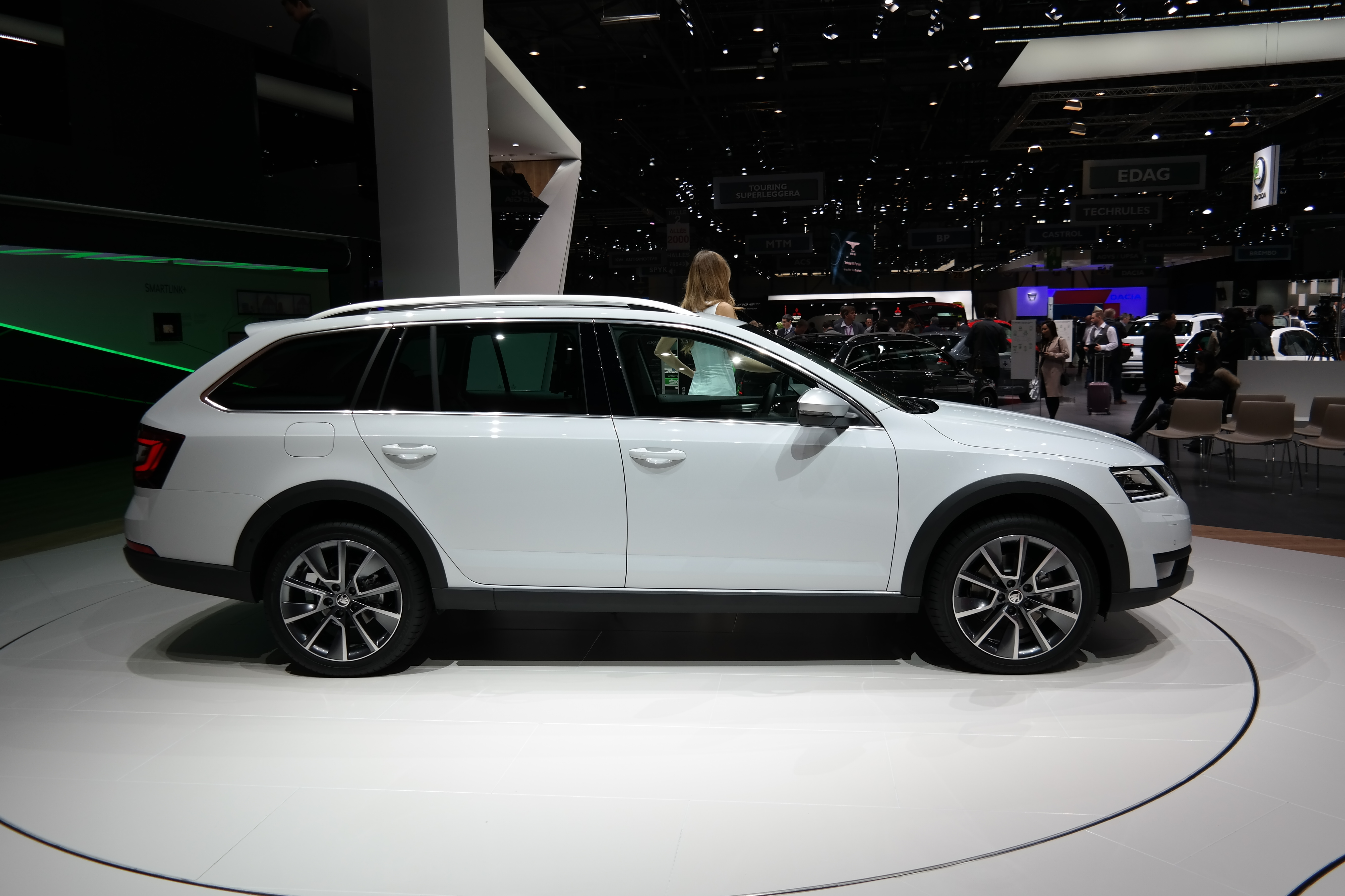 Geneva Motor Show 2017 (photo taken on the first press day)